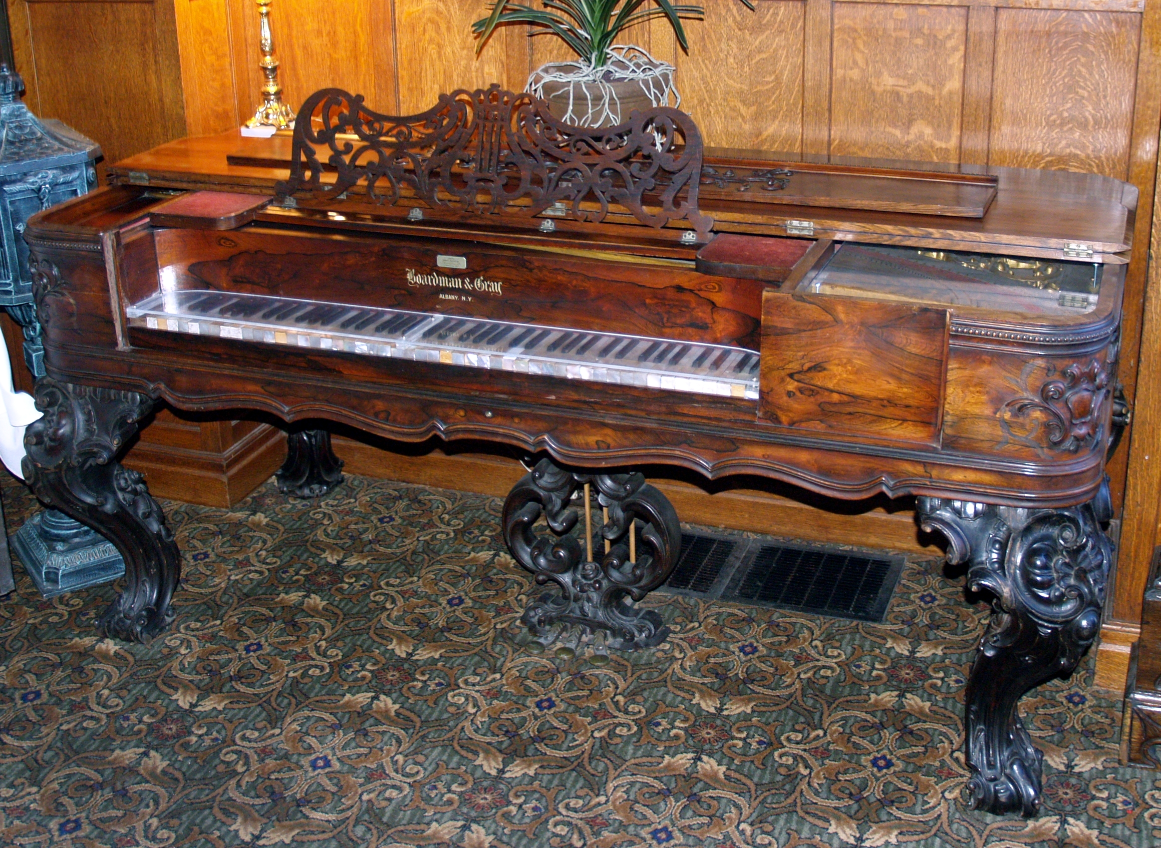 Boardman, Gray & Co. piano in the Glen Eyrie castle entry room in Colorado Springs.